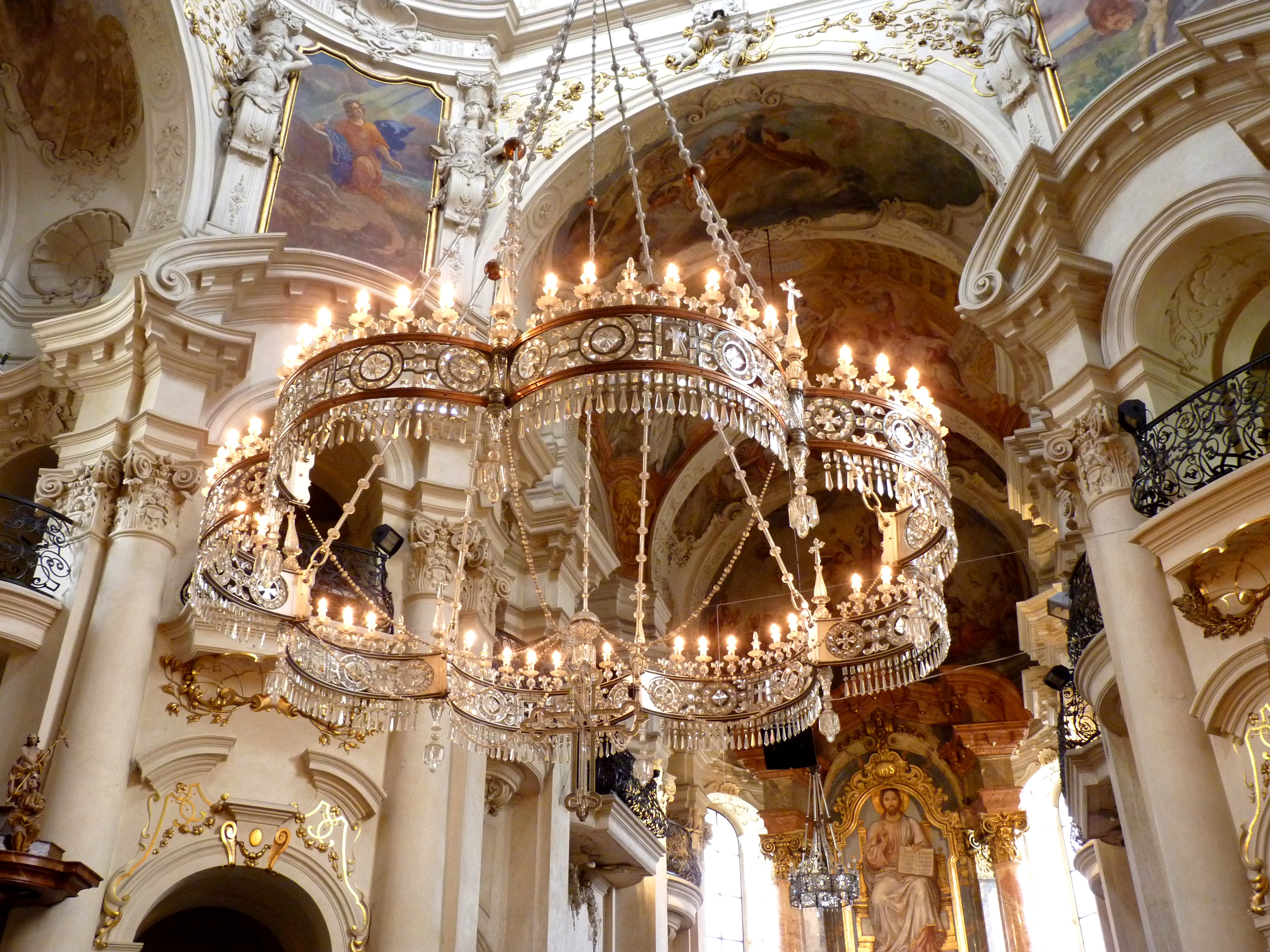 The interior of of Saint Nicholas Church in Prague.